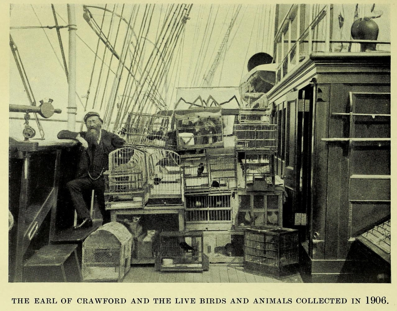 26th Earl of Crawford and the Live Birds and Animals Collected in 1906 Subject: Type specimens (Natural history), Naturalists, Crawford, James Ludovic Lindsay, Earl Of, 1847-1913 Tag: People institution: University of Washington Native nameUniversity of WashingtonLocationSeattle, Washington, United States of AmericaCoordinates47° 39′ 23.94″ N, 122° 18′ 48.17″ W Established1861Web page control : Q219563 VIAF: 154911632 ISNI: 0000 0001 2298 6657 SUDOC: 028372719 BNF: 12022118p department